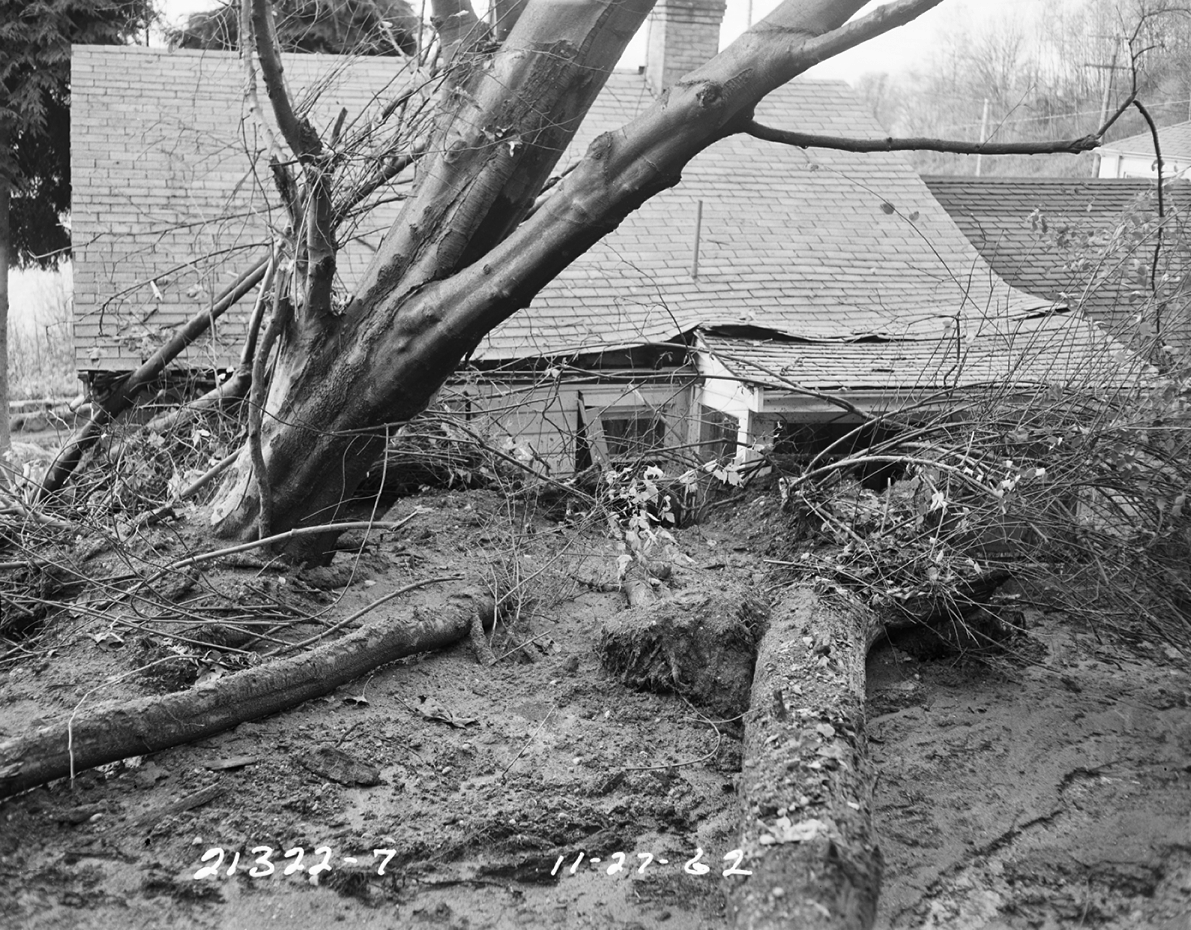 House was at 10422 47th Ave. SW. Item 74232 , Engineering Department Photographic Negatives (Record Series 2613-07), Seattle Municipal Archives .